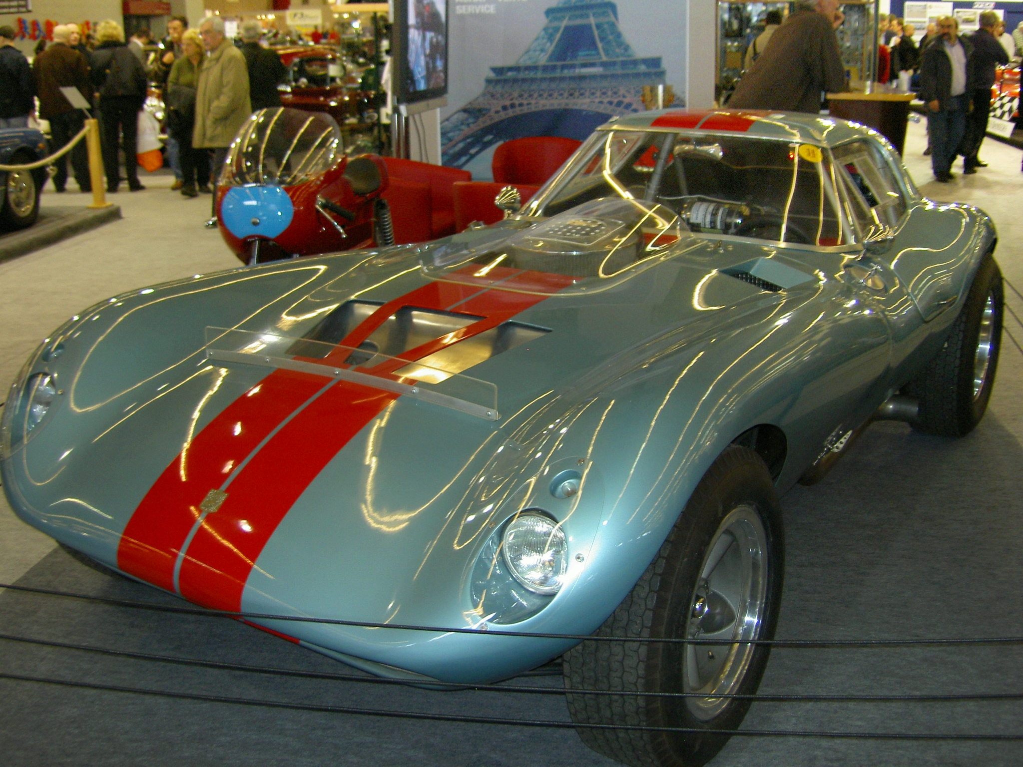 Cheetah (manufacturer: Bill_Thomas).